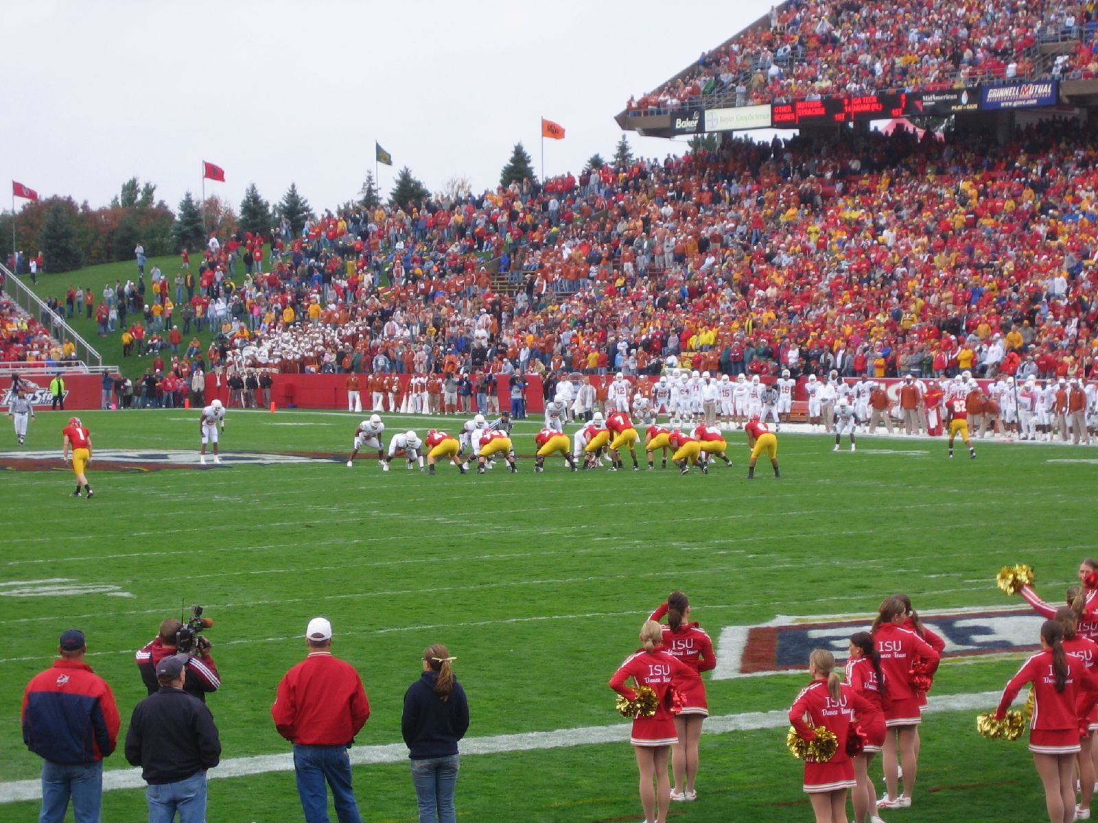 Texas vs. Iowa State 2007. Final score Texas 56, ISU 3.